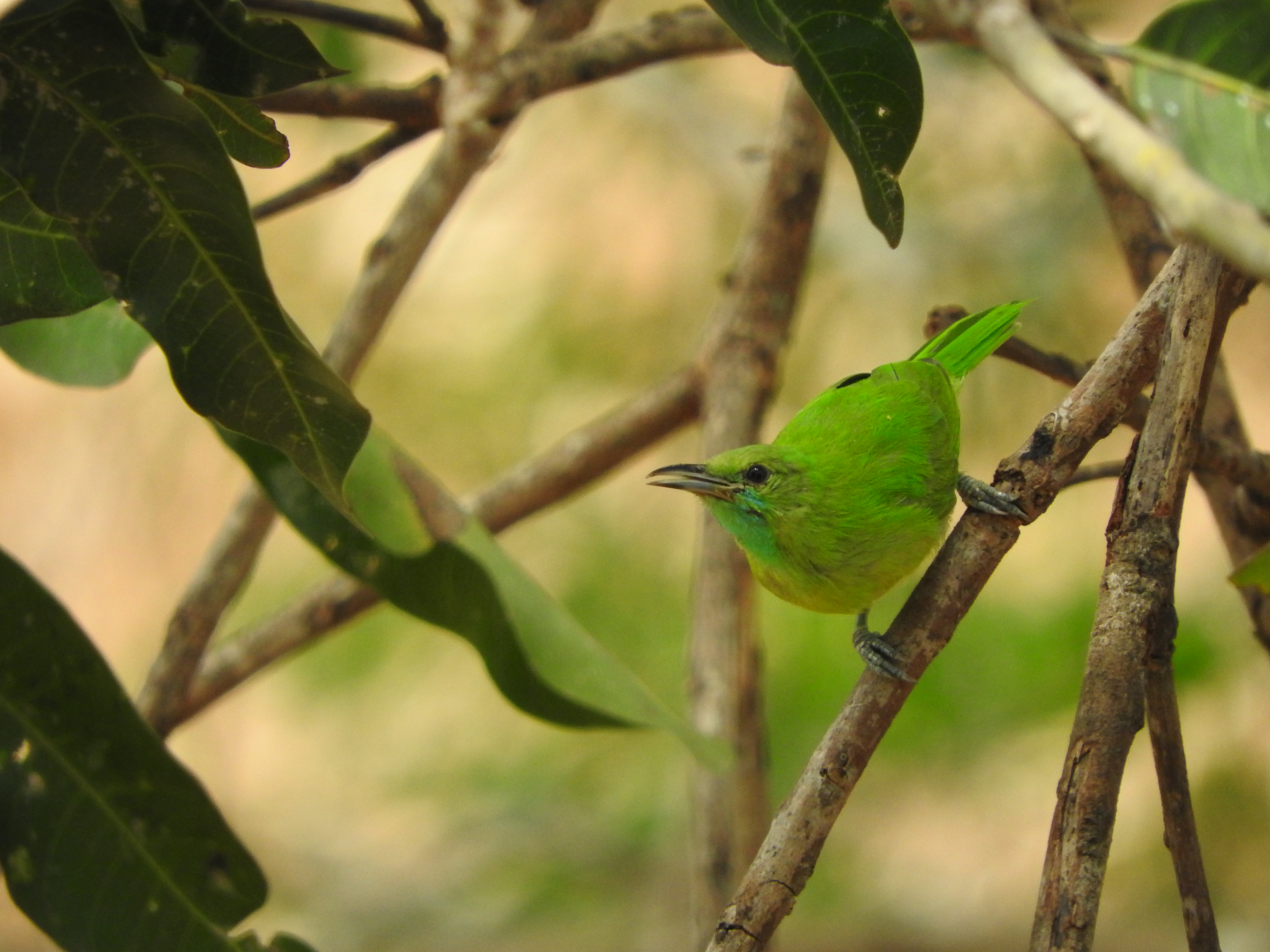 Leafbird picture is taken from Kuthanur-Palakkad-Kerala